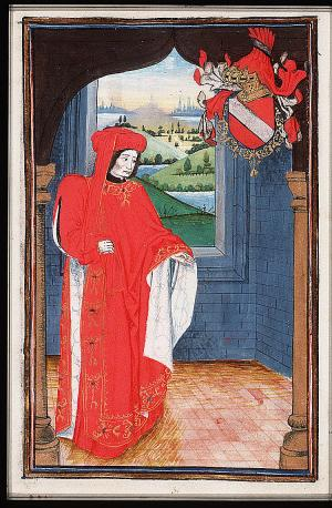 Statuts, Ordonnances et Armorial de l'Ordre de la Toison d'Or (Statutes, Ordonnances and armorial of the Order of the Golden Fleece) Place of origin, date: Southern Netherlands; 1473. Added sections: Southern Netherlands; 1478 or shortly after and 1491 or shortly after Material: Vellum, ff. 86, 249x187 (167x106) mm, 23 lines, littera cursiva (lettre bourguignonne). French. Binding: 18th-century brown leather Decoration: 1 full-page miniature (170x115 mm) with border decoration; 92 miniatures (185/155x120/100 mm); 1 historiated initial (80x90 mm) with border decoration; decorated initials with border decoration (ff., Added section: miniatures ; 4 drawings for miniatures (not finished) Provenance: Presented in 1473 by Gilles Gobet, King of Arms of the Order of the Golden Fleece, to Charles the Bold, Duke of Burgundy and the other Knights during the Chapter of the Order held at Valenciennes; Treasure of the Golden Fleece, Brussls; taken away by the Treasurer C.-F. Humyn (d. 1735) or his daughter C.Ch. de Corte; by legacy to her daughter M.-L. de Corte, wife of Ph.-E. de Poederlé; purchased in 1781 at the Poederlé sale by G.-J- Gérard of Brussels; acquired in 1832 as part of the Gérard collection (no. A 27)